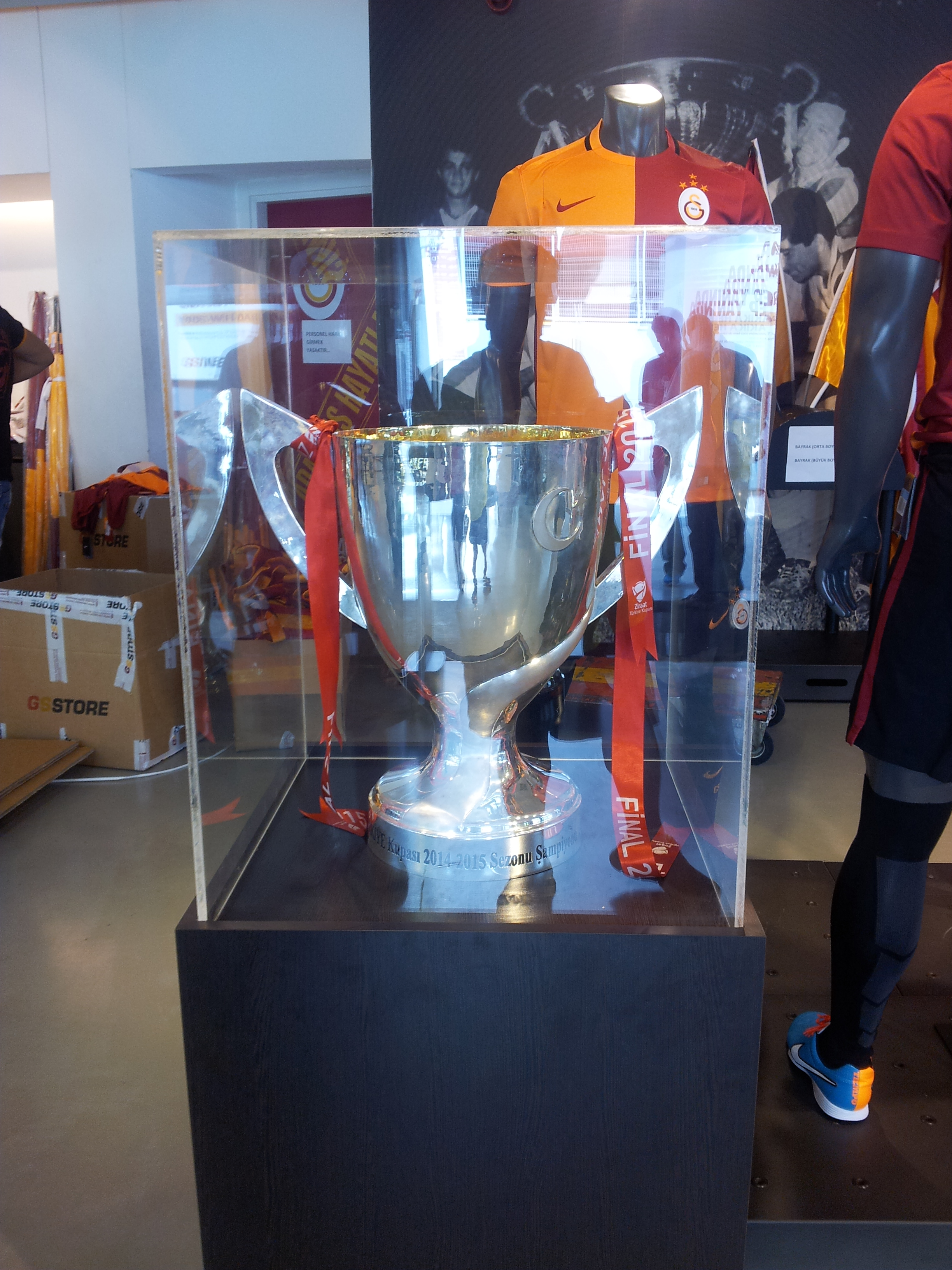 2014–15 Turkish CupTürkçe: 2014-15 Türkiye Kupası